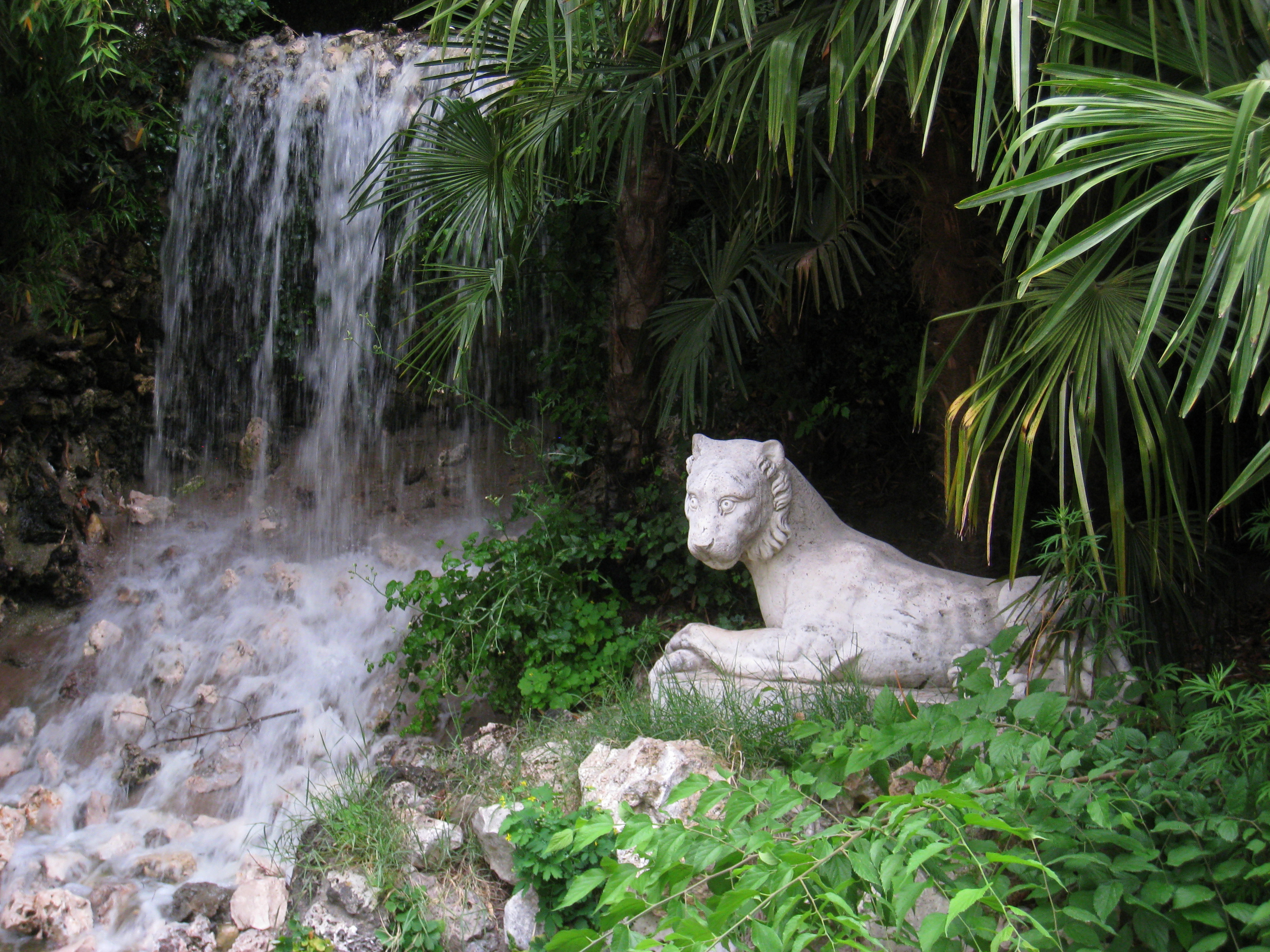 Sculpture and waterfall at the Montaña artificial, Parque del Buen Retiro, Madrid, Spain.